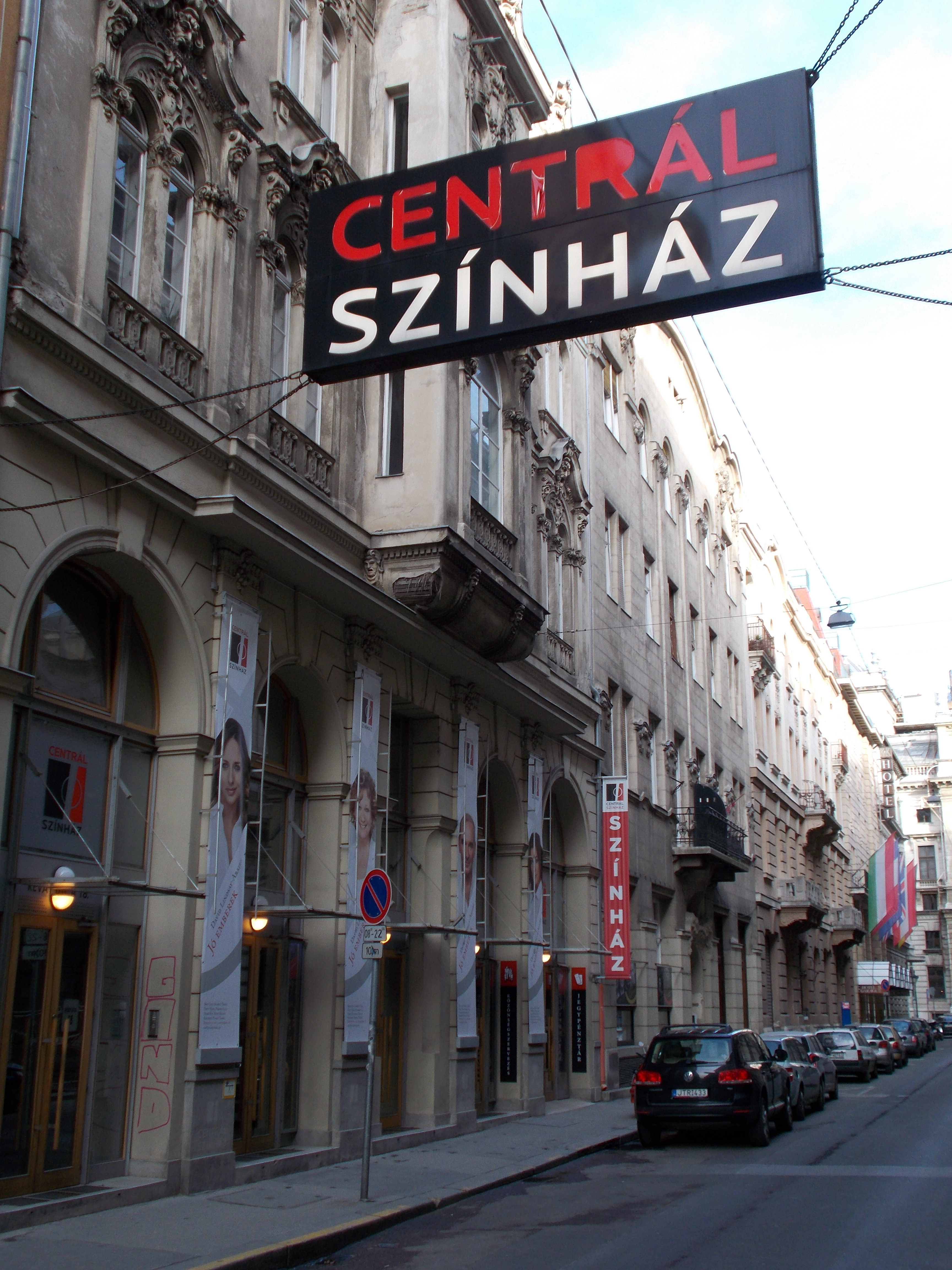 Centrál Színház, - Budapest, Révay utca 18